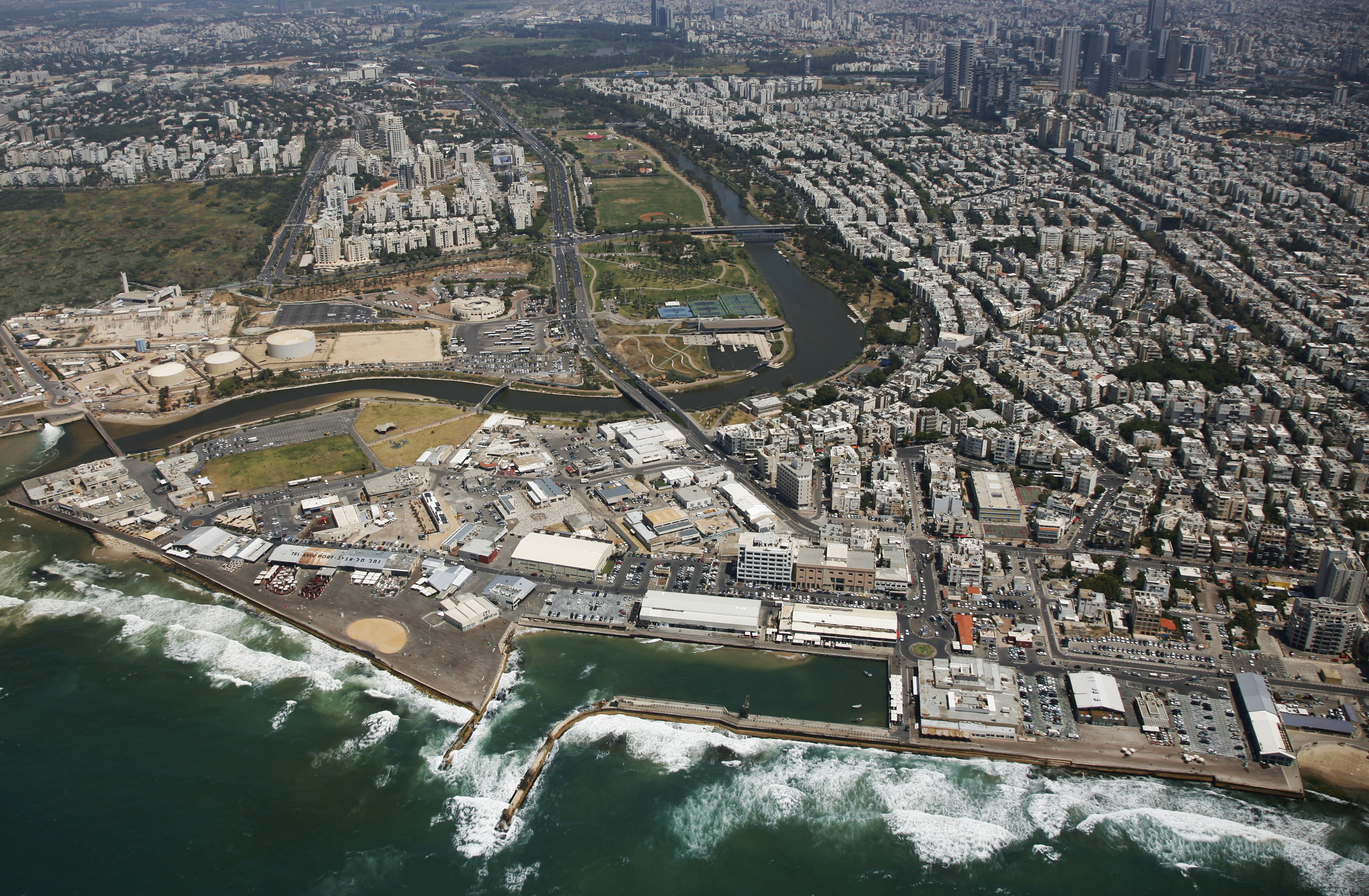 Aerial photo showing the Port of Tel Aviv in the foreground with the city in the background. Note: This photograph contain photo manipulation that distorts the actual image and remove physical details from it.